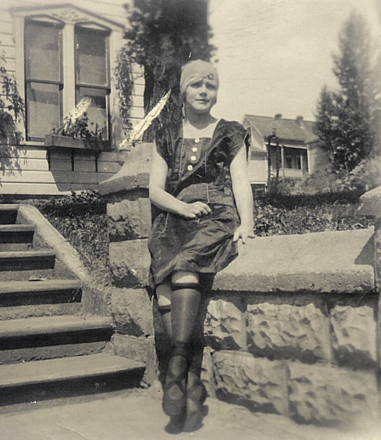 Photo of a girl in "flapper" garb. Taken in Moscow, Idaho in 1922. Donated by Dave Bumgardne.